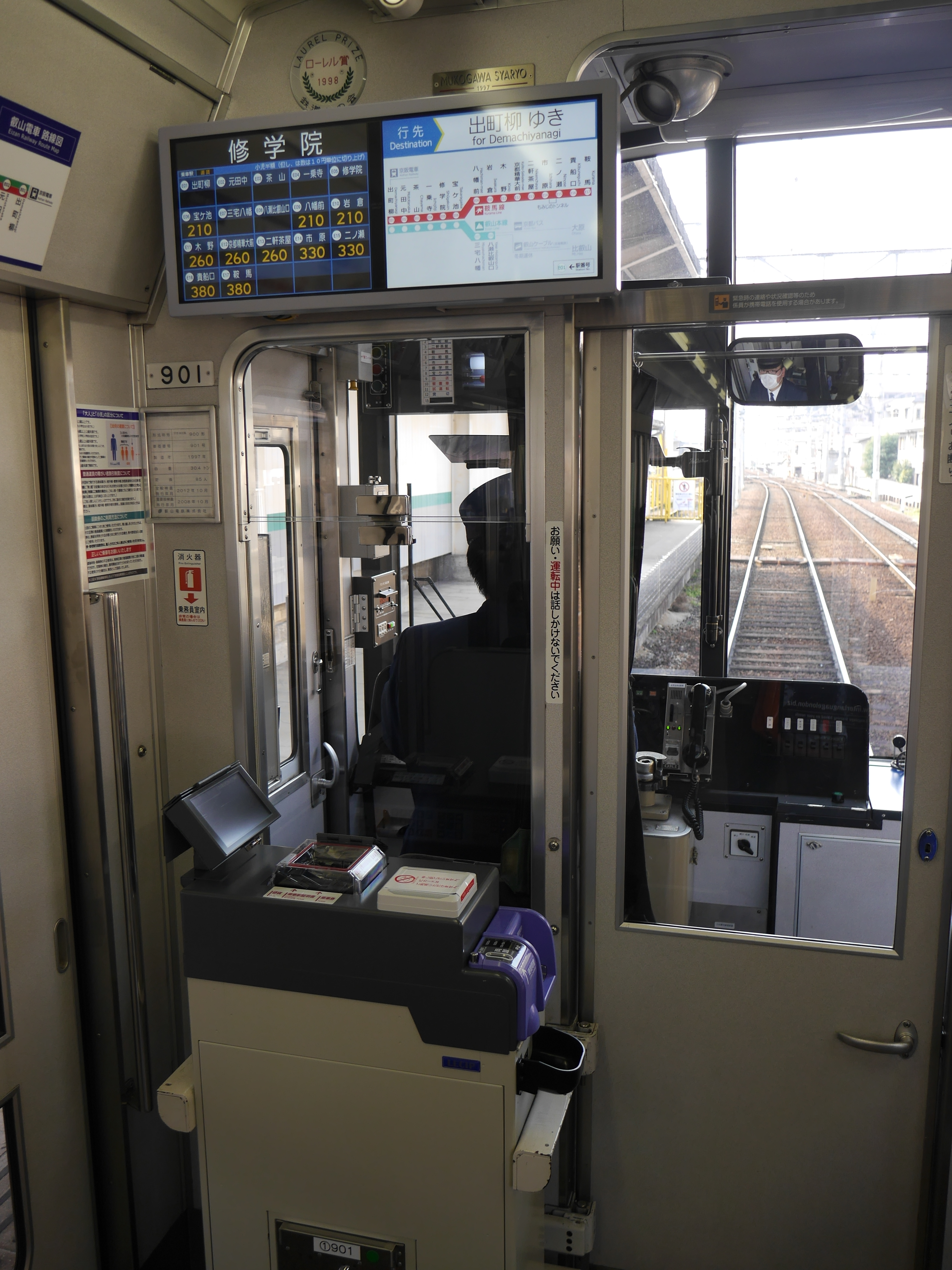 Fare machine and fare showing LCD which are replaced to be used with IC card fare system on Eizan Electric Railway DEO 901 EMU